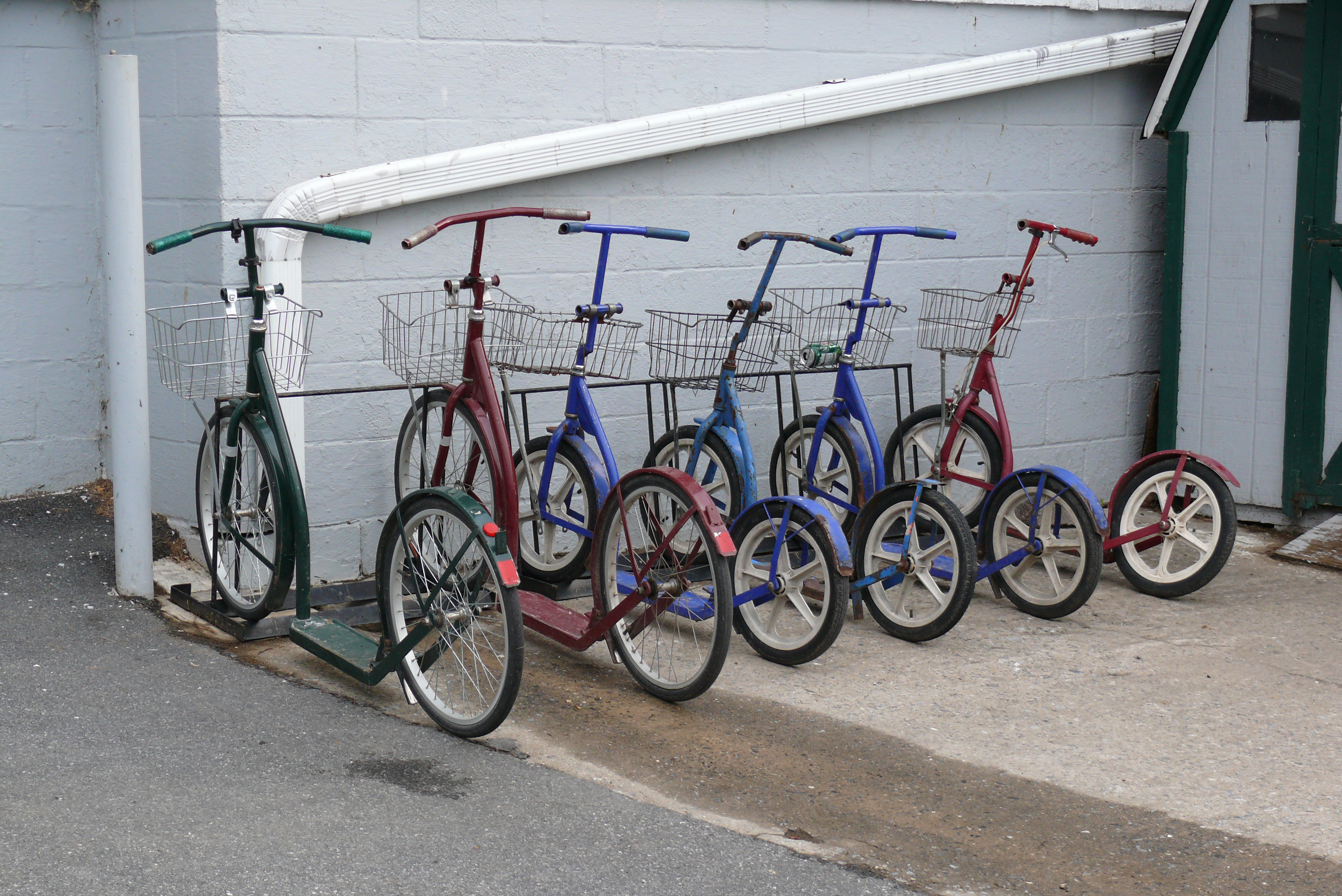 Kick scooters as transportation means on an Amish dairy farm.